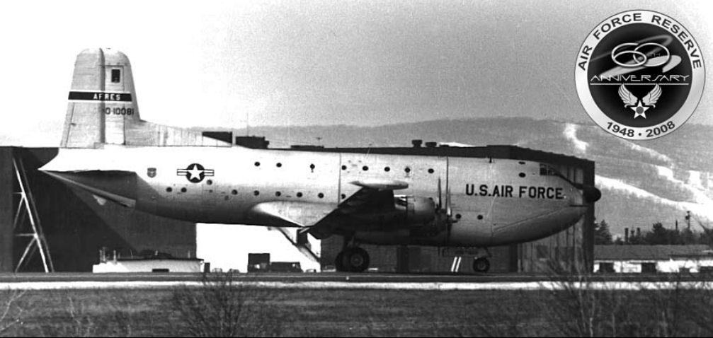 An 905th Military Airlift Group Air Force Reserve Douglas C-124C-DL Globemaster II 51-081. taxies to its parking spot at Westover, circa �970. Aircrews with the 905th Military Airlift Group, the first reserve unit assigned to Westover, flew the transport from 1966 to 1972.